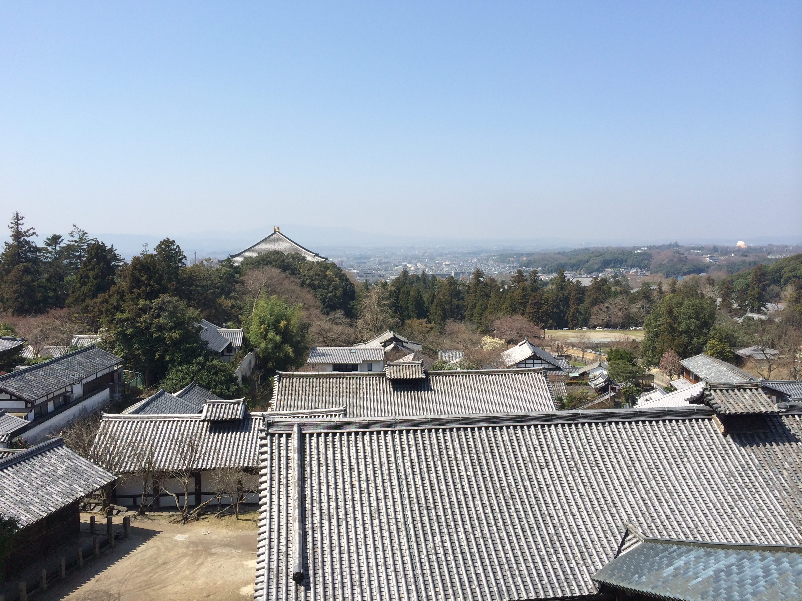 Zoshicho, Nara, Nara Prefecture 630-8211, Japan